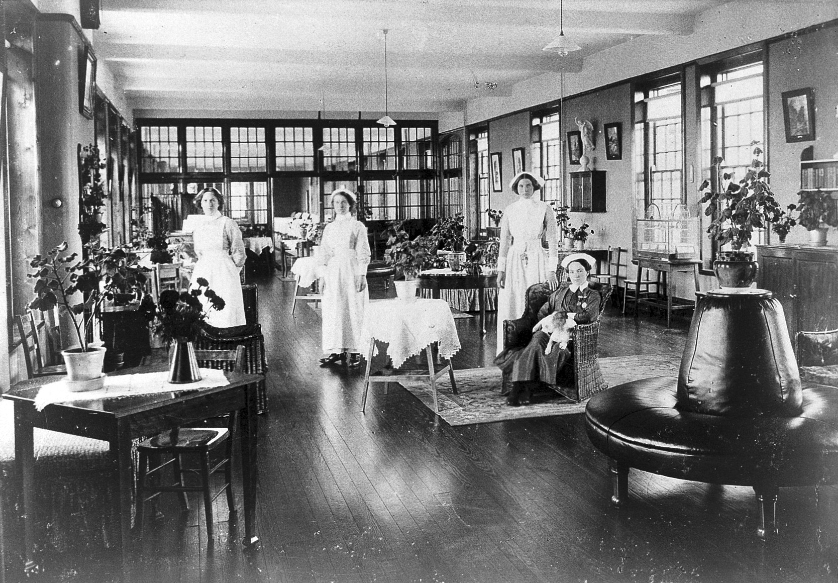 Nurses in a drawing room, Saxondale hospital in Nottingham. In the Royal College of Psychiatrists. Wellcome Images Keywords: mental hospital, nottingham